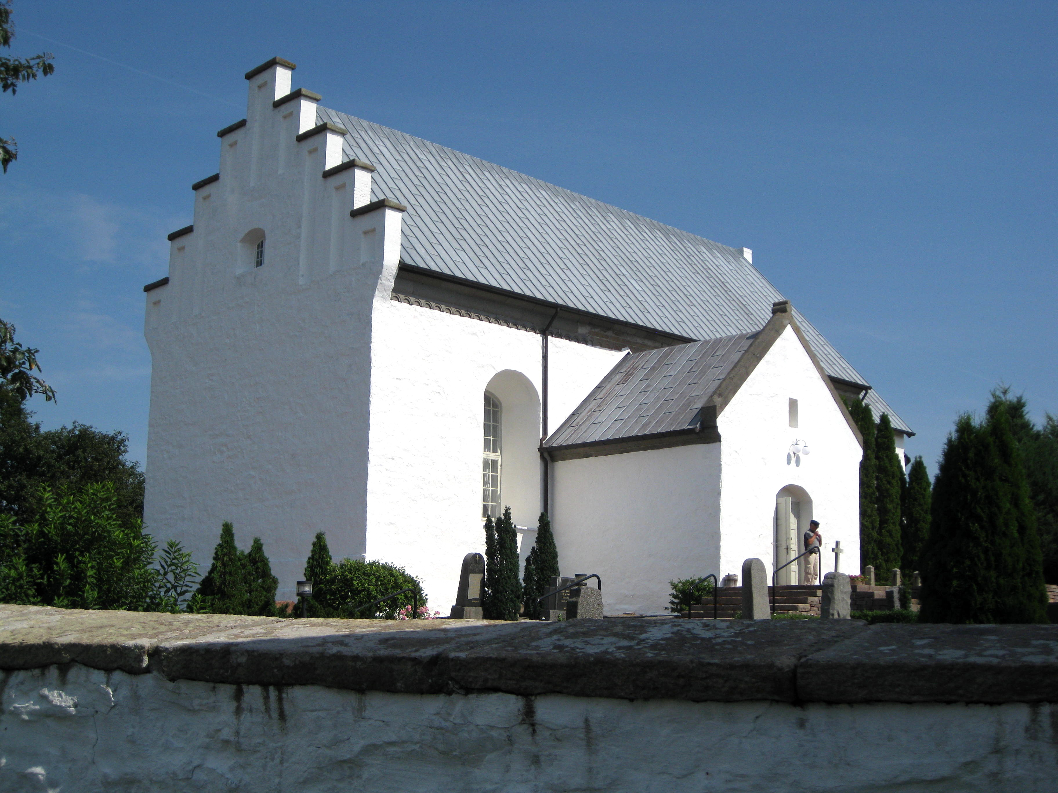 The church "Sankt Povls Kirke" (also named "Sct. Povls Kirke") on the island Bornholm in east Denmark.